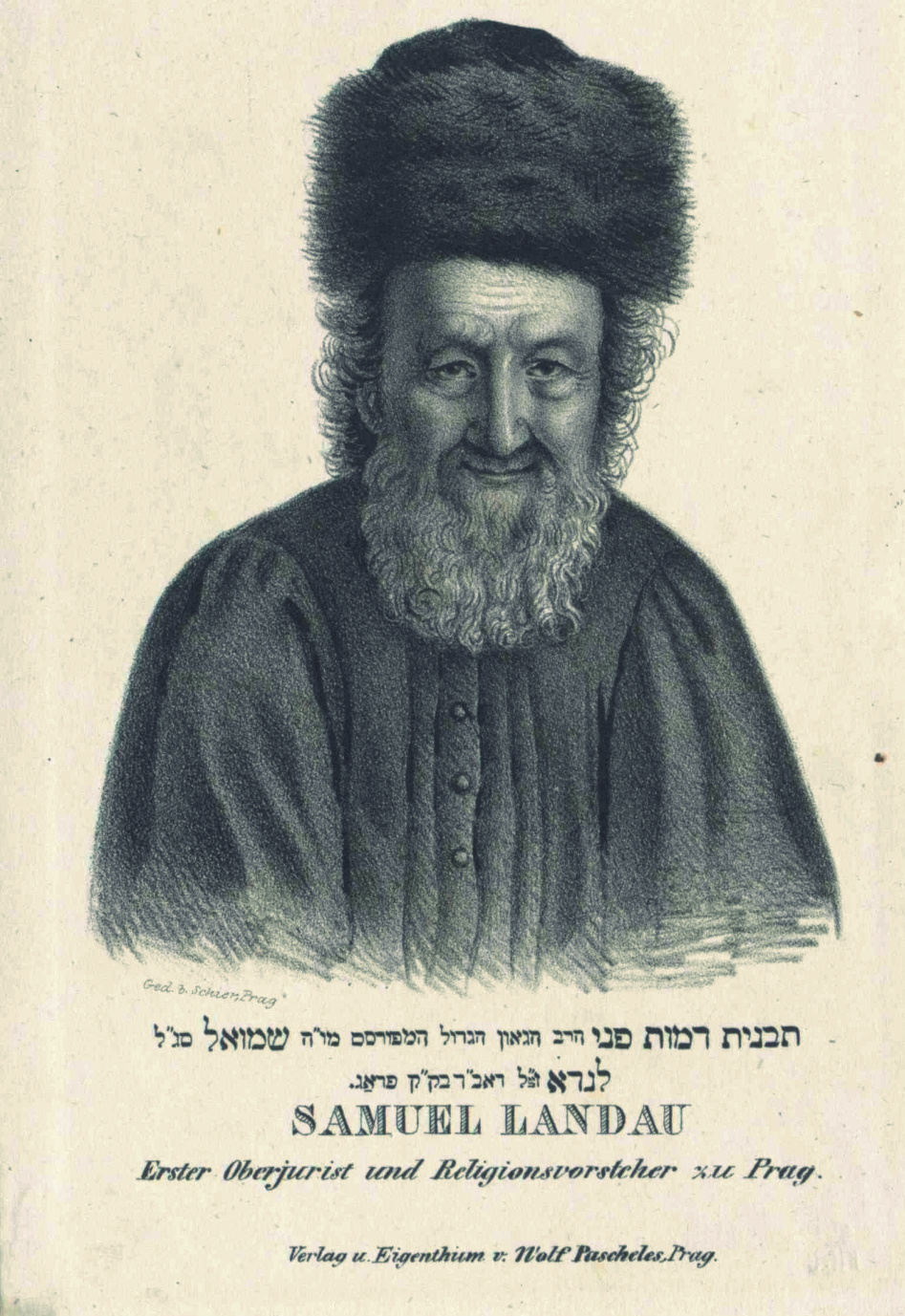 Rabbi Samuel Landau of Prague.